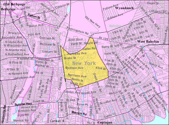 U.S. Census 2000 reference map for North Amityville, New York